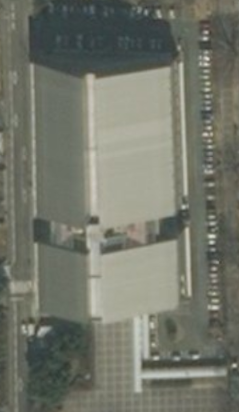 Toyokawa City General Gymnasium